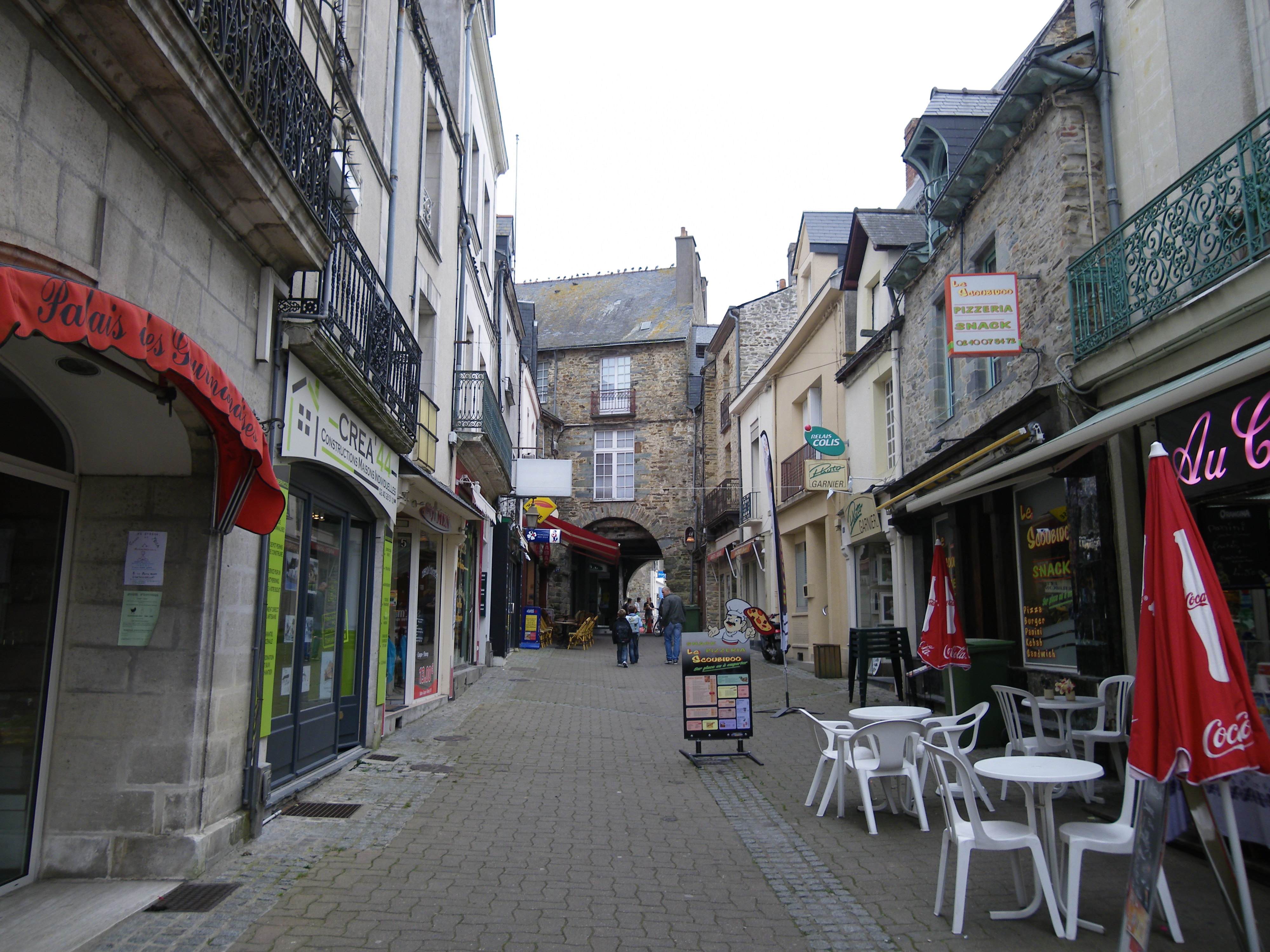 chateaubriant